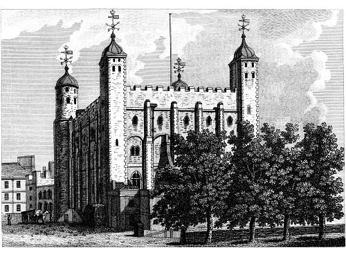 The White Tower, or Tower of London